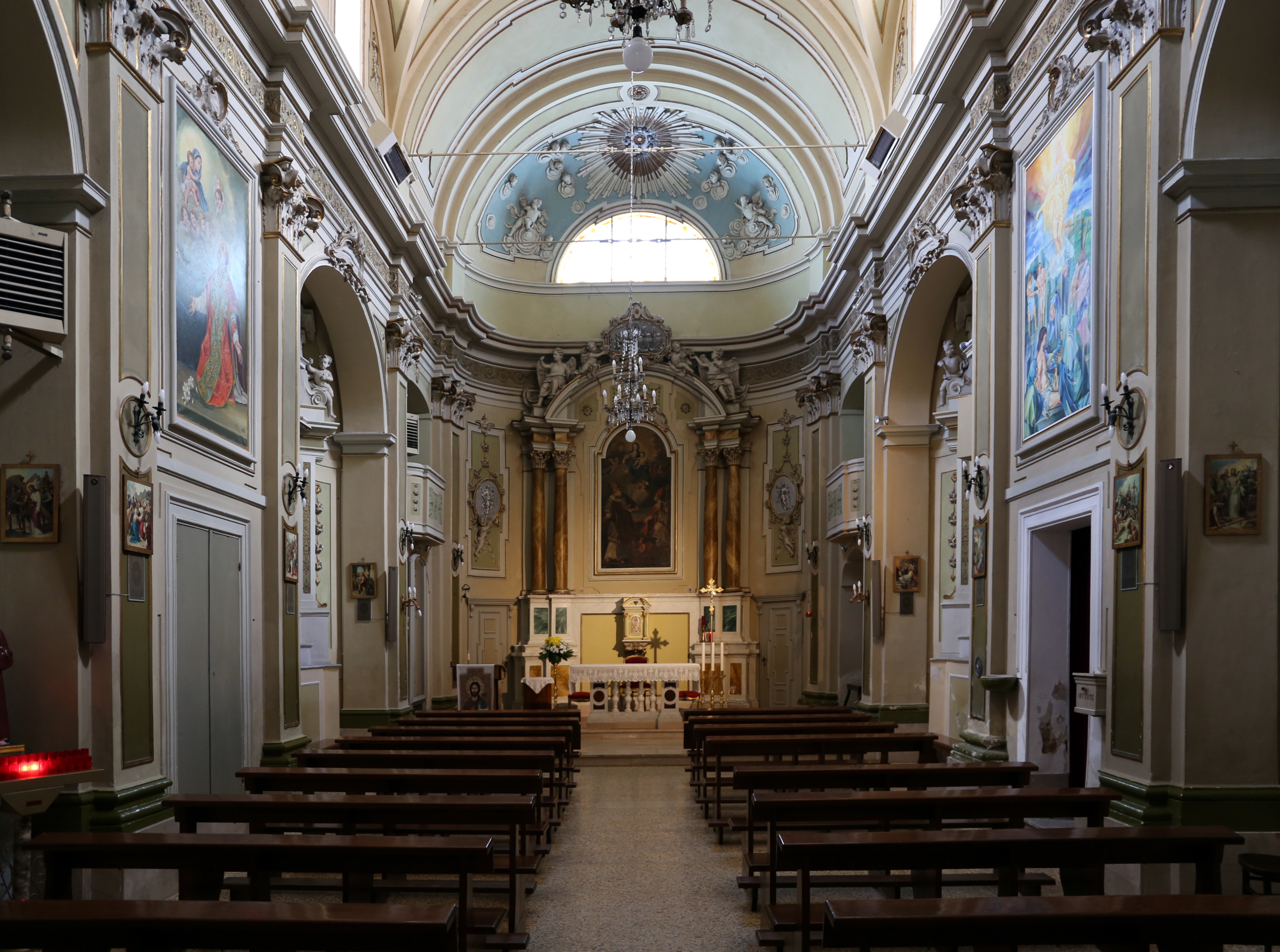 San Nicola (Guardiagrele)